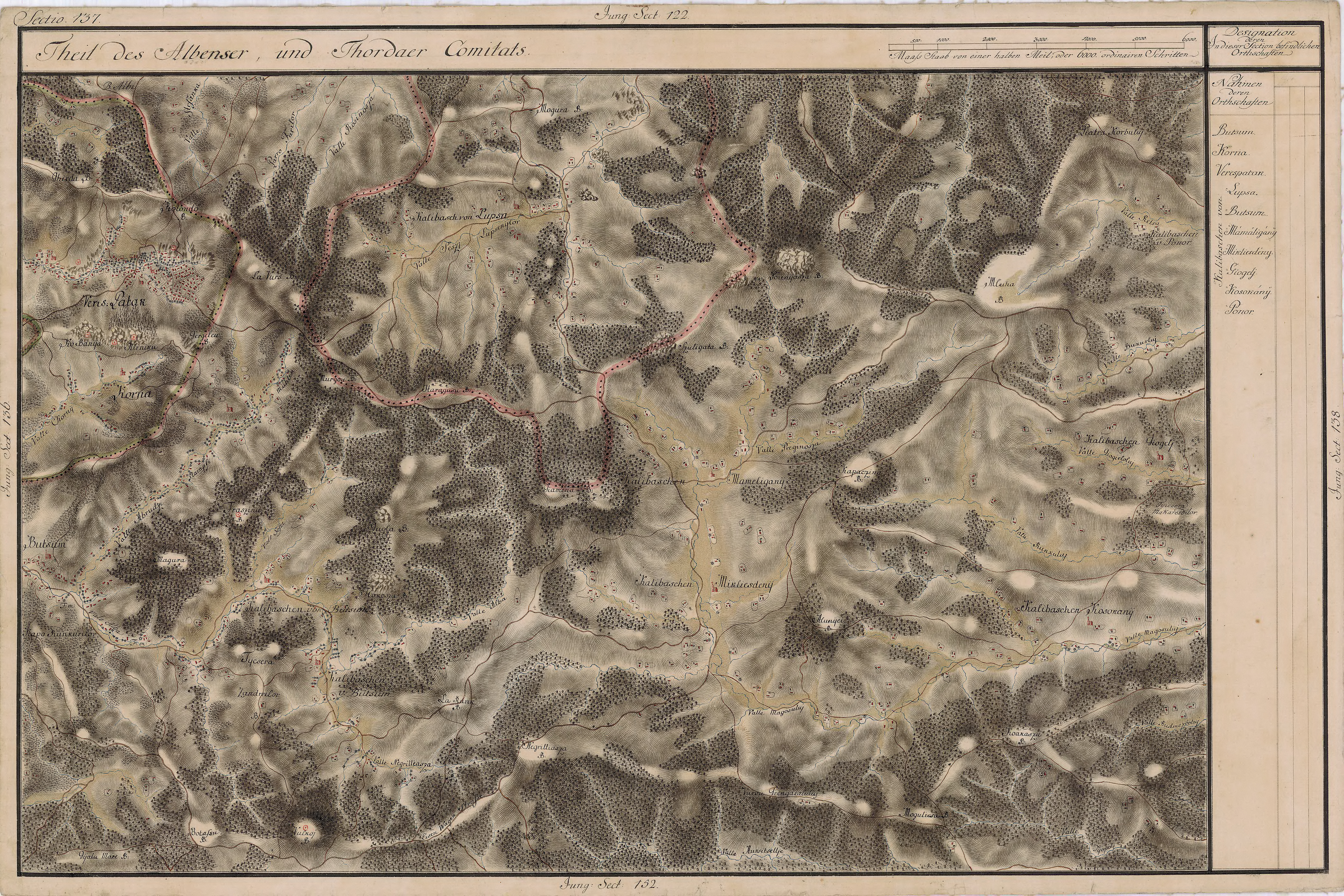 Grand Duchy of Transylvania, 1769-1773. Josephinische Landaufnahme pg.137